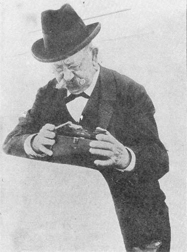 Anastas Jovanović